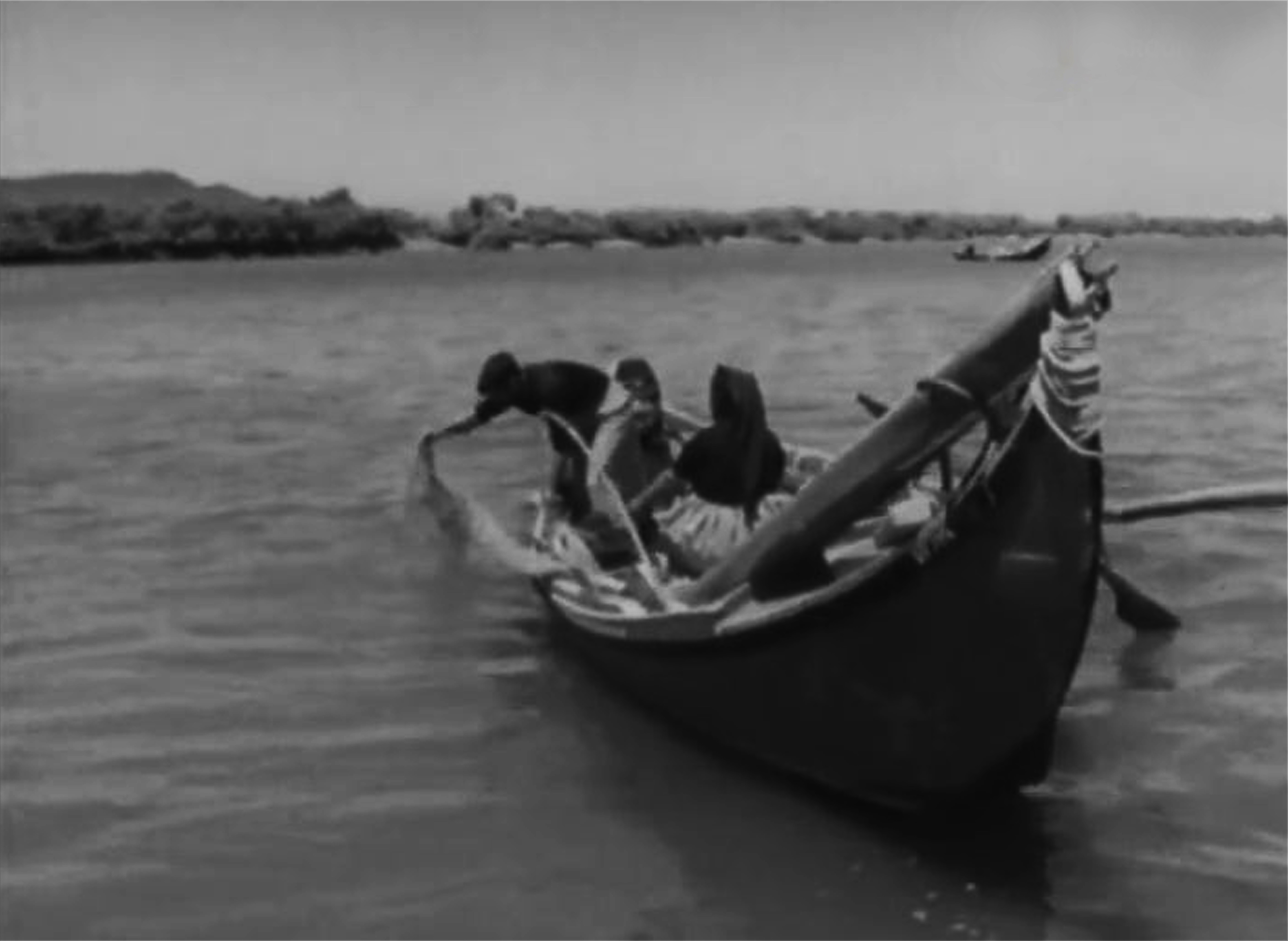 Close-up of fisherman Zaragata at the Portuguese film Avieiros